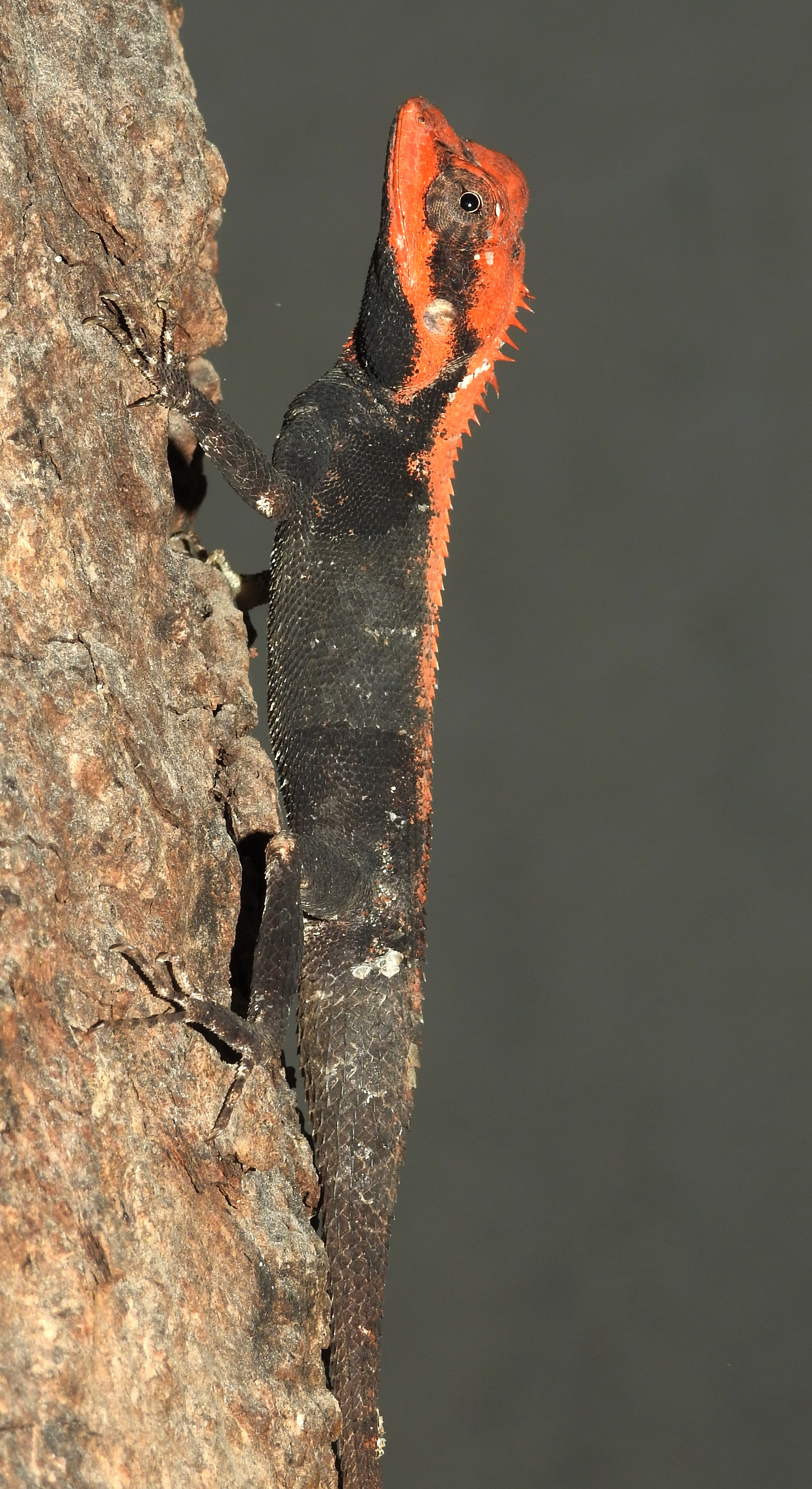 Calotes rouxii, commonly known as Roux's forest lizard or Forest Calotes. Photographed by Dr. Raju Kasambe at BNHS Conservation Education Centre, Goregaon, Mumbai, Maharashtra.